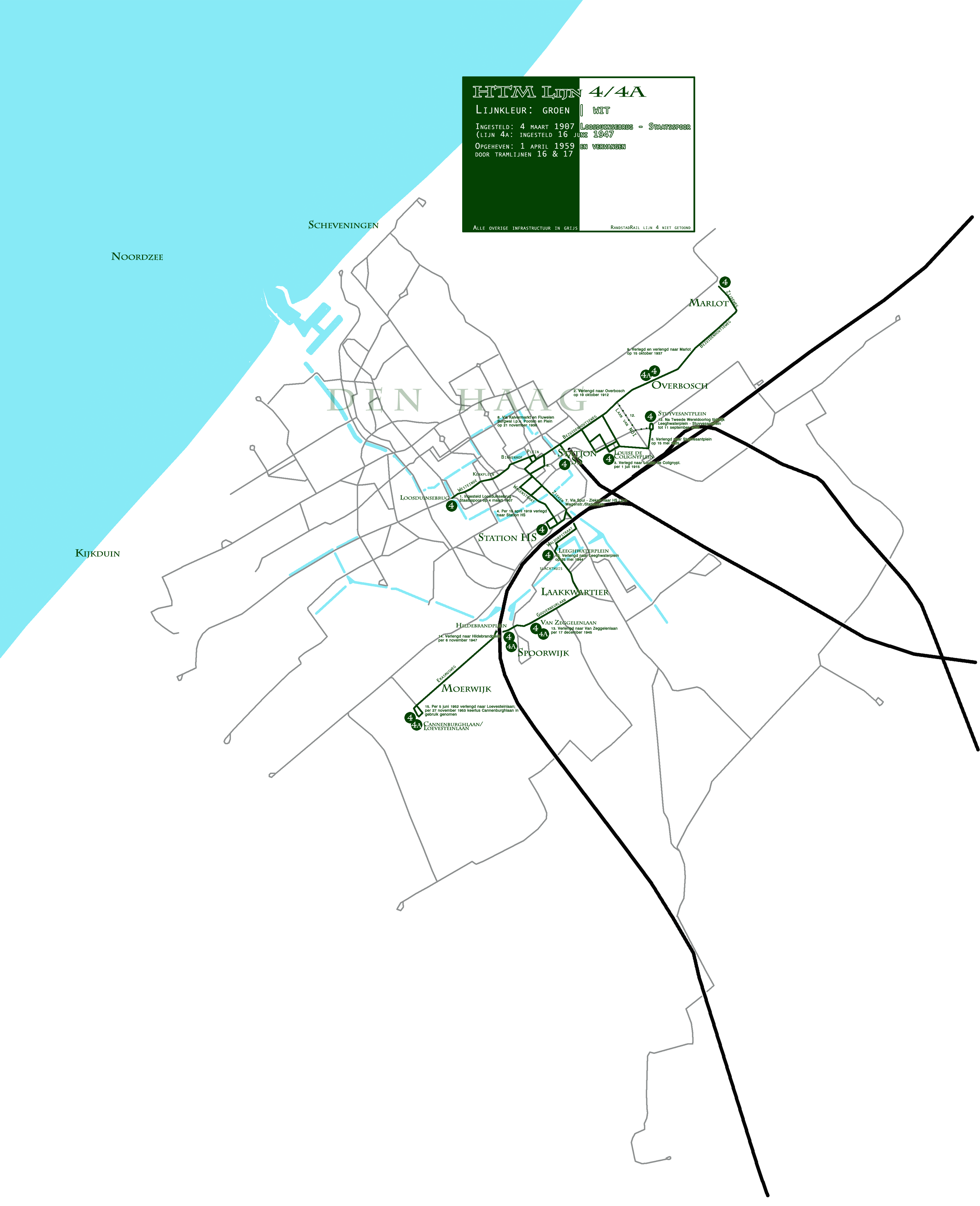 Route 4, The Hague, on a map.